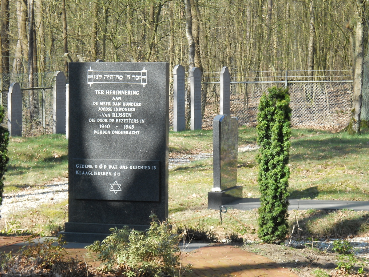 זְכֹר ה' מֶה הָיָה לָנוּ Remember, O LORD, what has happened to us (Lamentations 5:1)